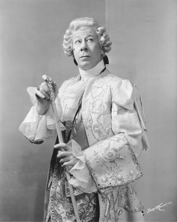 Publicity photo of American entertainer, Bert Lahr promoting his role as Louis Blore in the Broadway production of DuBarry Was a Lady, 1939.